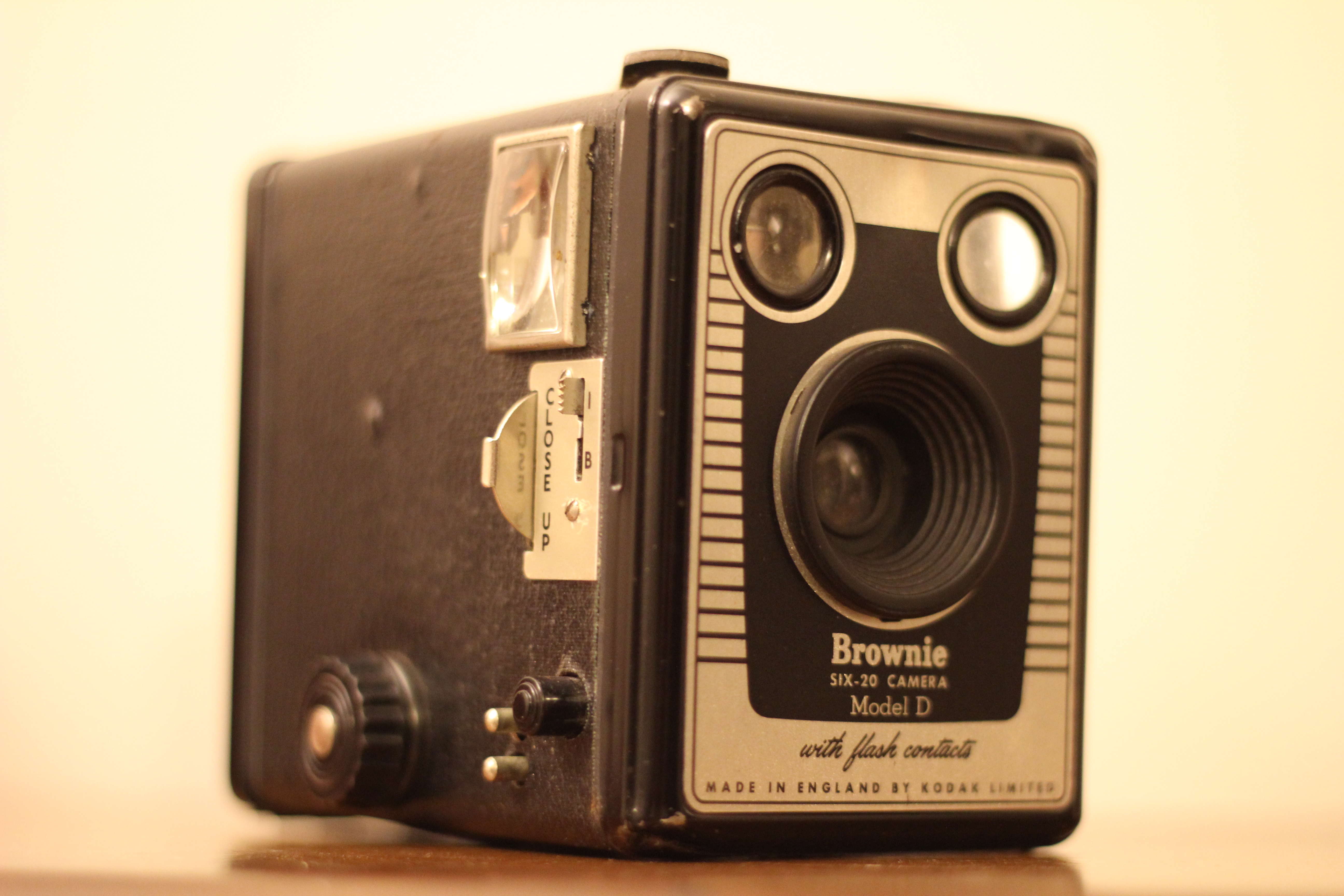 620 roll film camera. It takes great atmospheric pictures, and will even accommodate 120 film. You can read the manual for this camera at this handy website.